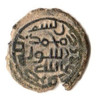 8th century CE Umayyad post-reform copper "fals" with the radial inscription reading "Bismallah Thuriba Bil-Urdun" (In the name of God, struck in Jordan) along with part of the Islamic declaration of faith (in the center).